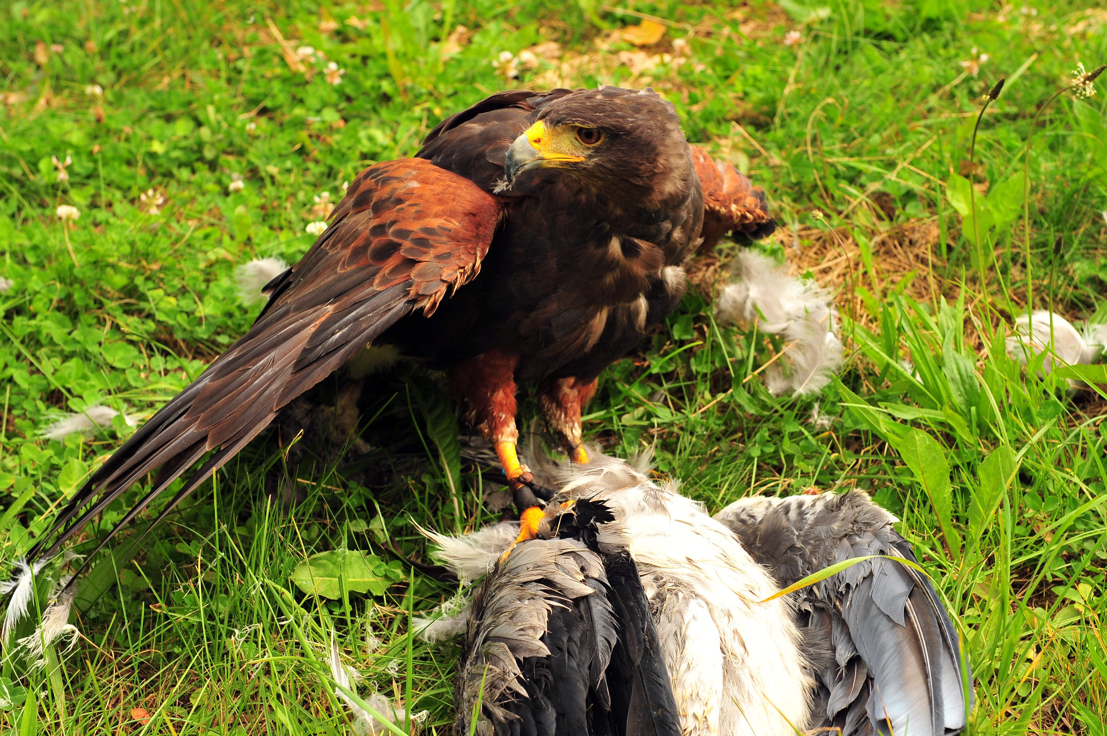 SPANGDAHLEM AIR BASE, Germany – A hunting falcon traps and kills a large bird near the flight line here July 31. Roland Leu, 52nd Fighter Wing falconer, is the wing’s only falconer and he uses his four falcons to hunt birds and rodents throughout the year. The falconer keeps rodent and bird populations clear of aircraft and helps reduce the amount of damage and cost of repairs done to aircraft.